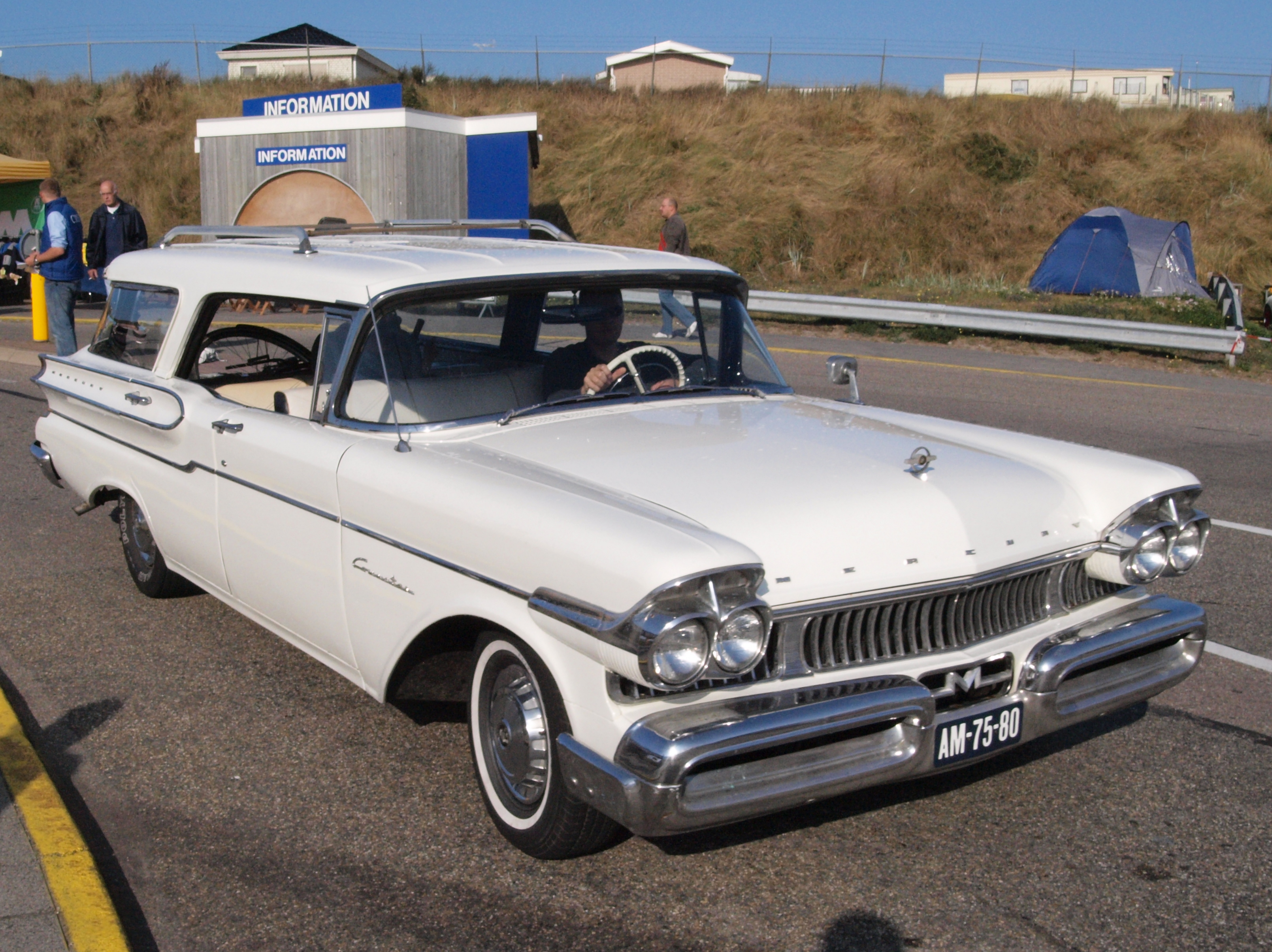 Photographed at the Nationaal Oldtimer Festival Zandvoort 2009, The Netherlands. OLYMPUS DIGITAL CAMERA